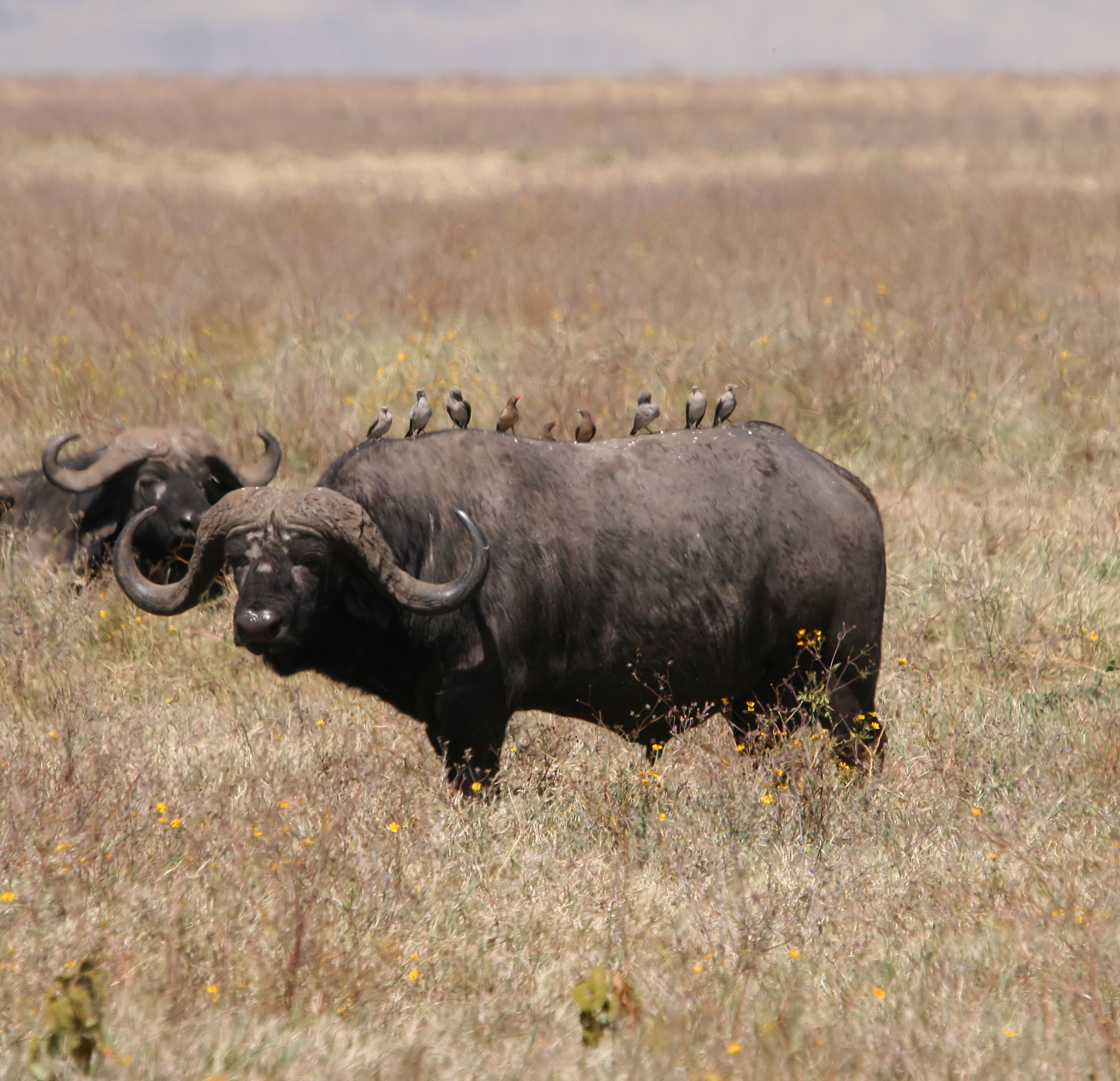 African buffalo (Syncerus caffer), picture taken at Ngorongoro Conservation Area, Tanzania